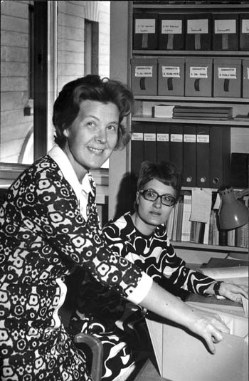 Linguist Helmi Virtaranta (left) with Marja Torikka, early 1960s